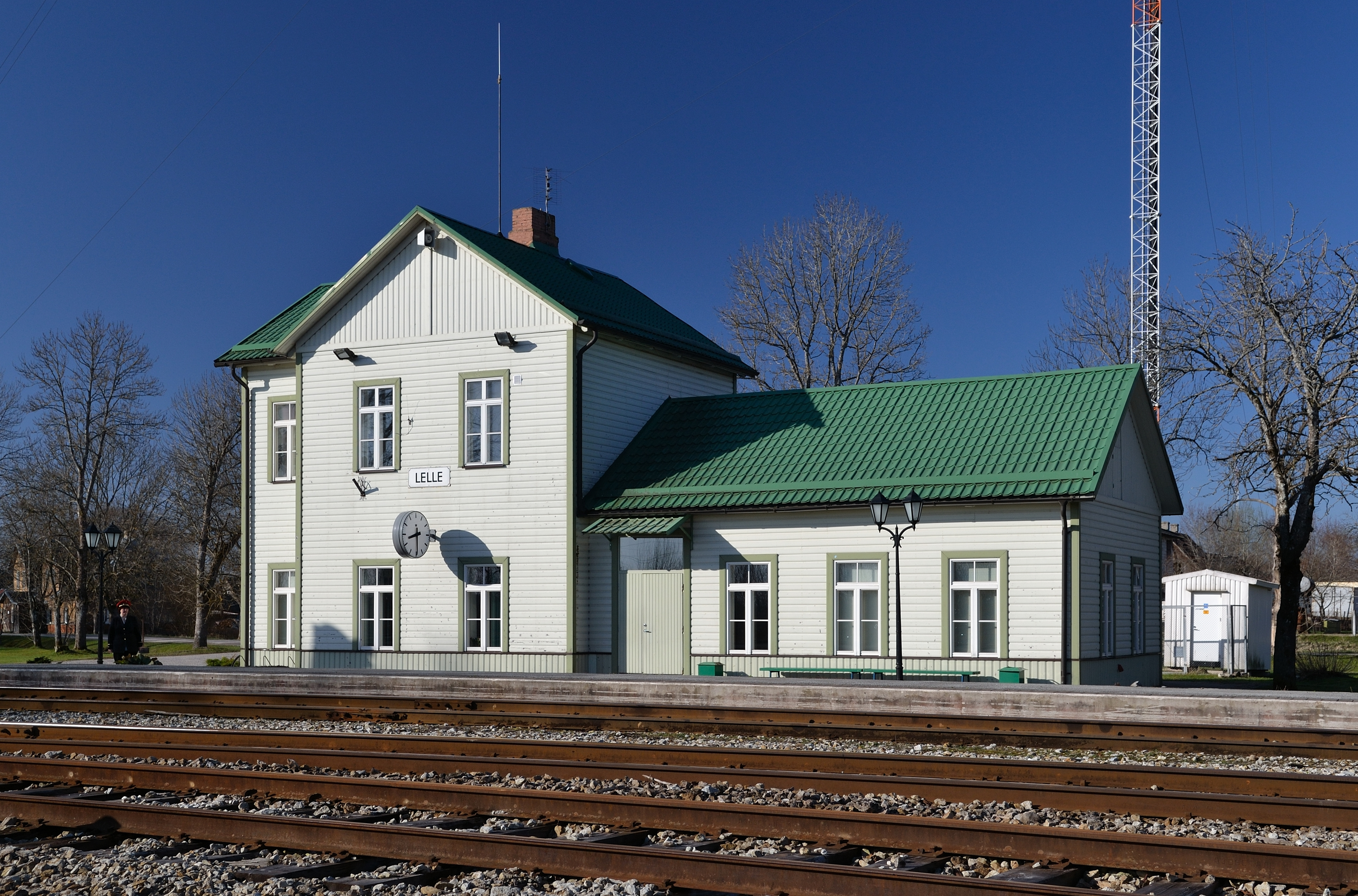 Lelle station main building, built in 1901